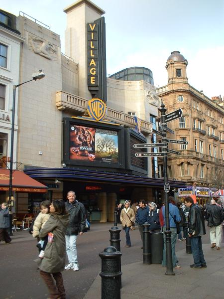 Warner Brothers Village Leicester Square. Taken by C Ford 7th March 04. Later that year the Warner Village chain was bought by Vue and the WB shields were replaced by the Vue logo.